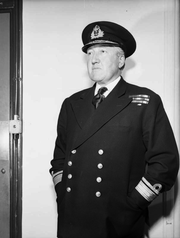 Britain's new Fifth Sea Lord Rear Admiral Thomas Troubridge, CB, DSO and Bar, standing in his office at Rex House London.